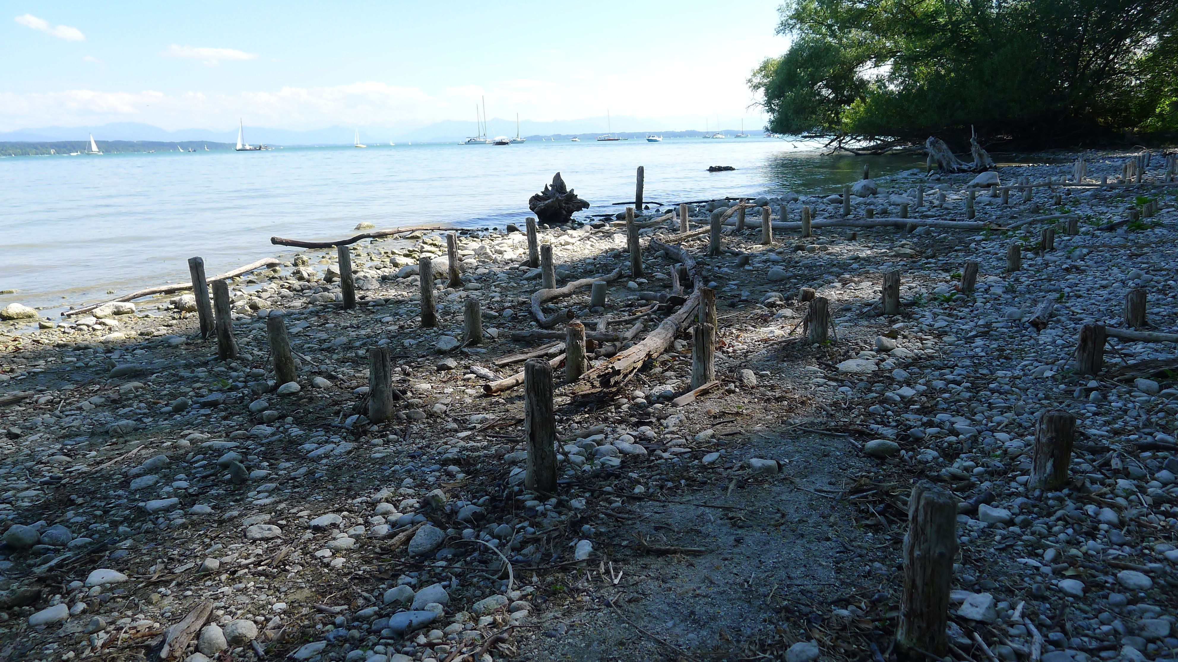 Remains of former stilt houses on Rose Island